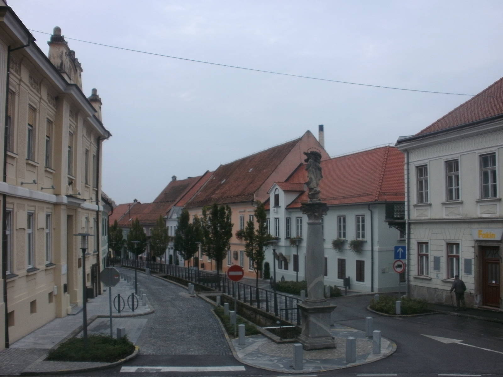 Slovenske Konjice - Old Square